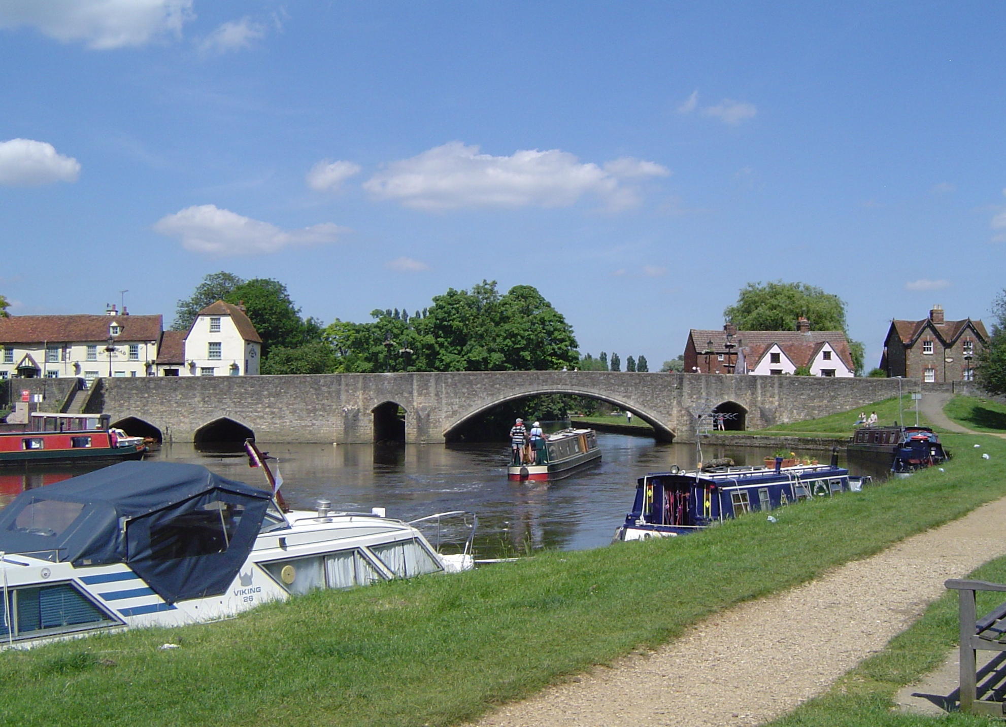 Abingdon (Burford) Bridge